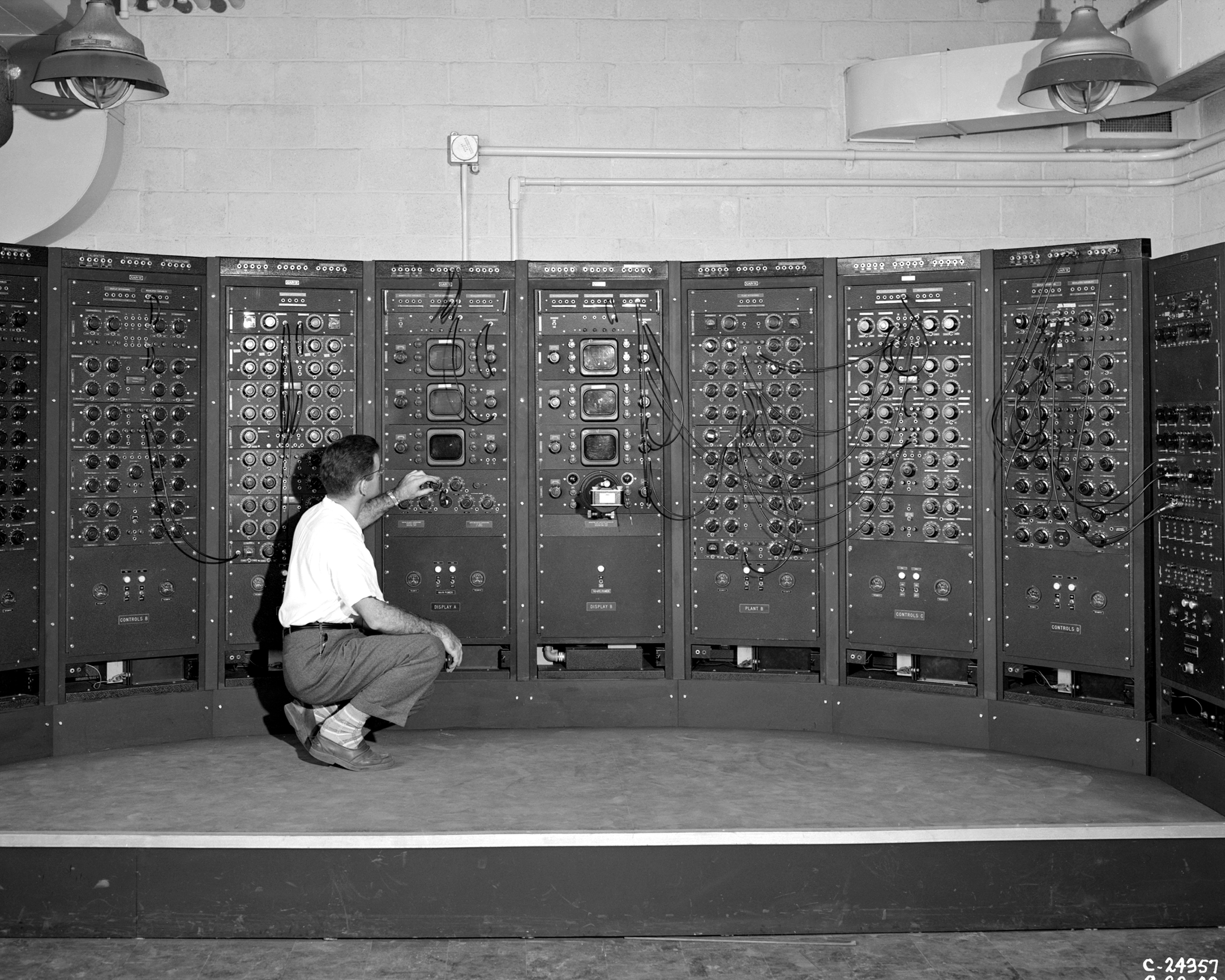 Analog Computing Machine in the Fuel Systems Building. This is an early version of the modern computer. The device is located in the Engine Research Building at the Lewis Flight Propulsion Laboratory, now John H. Glenn Research Center, Cleveland Ohio.